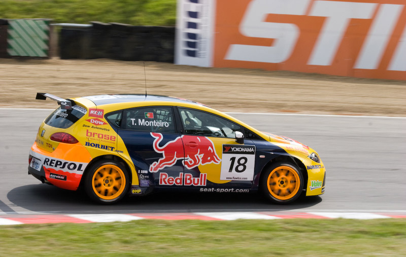 Tiago Monteiro (SEAT Sport) at the 2008 WTCC Brands Hatch race.